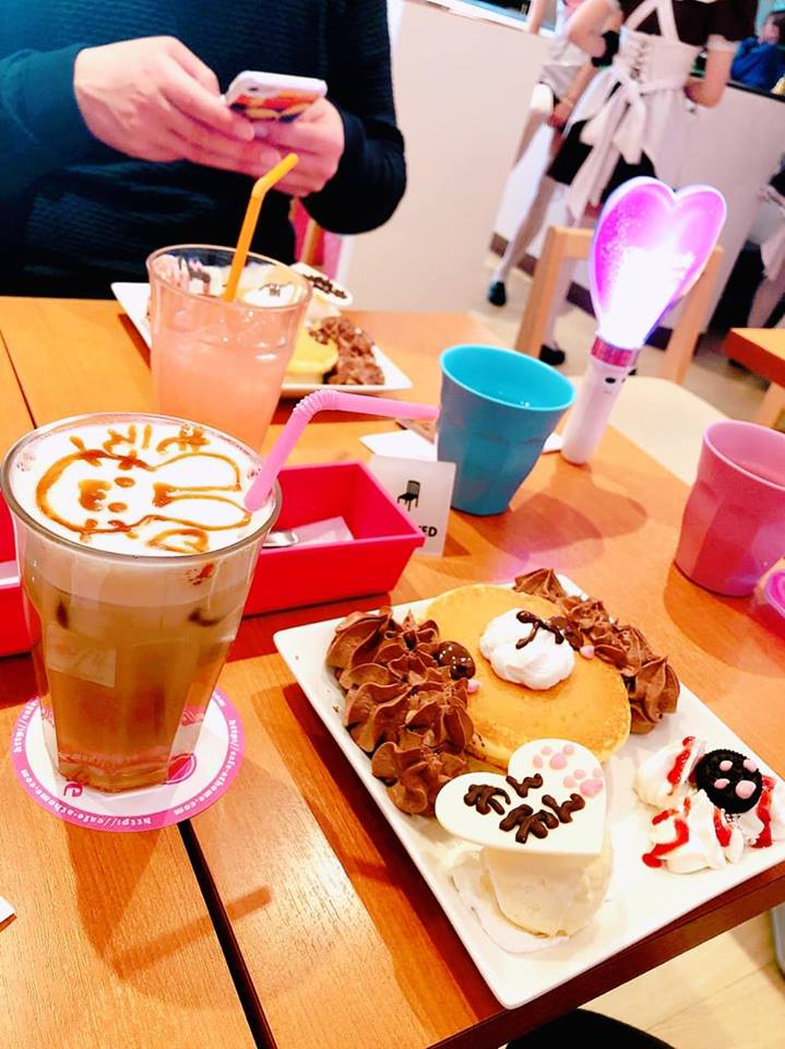 All the food and drinks at home cafe are cute!